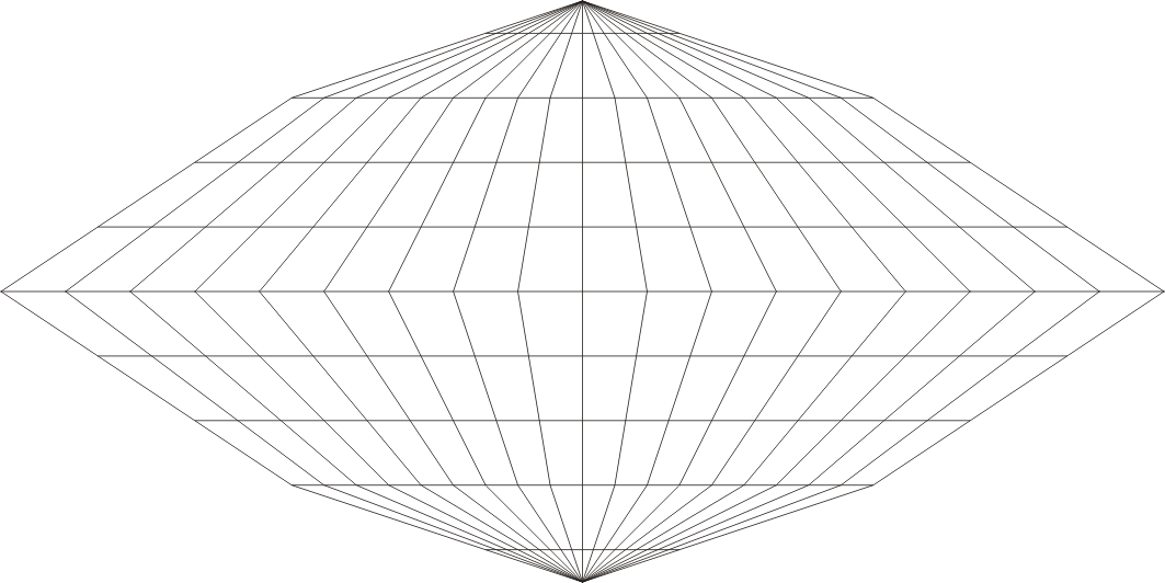 Kirchhoff projection